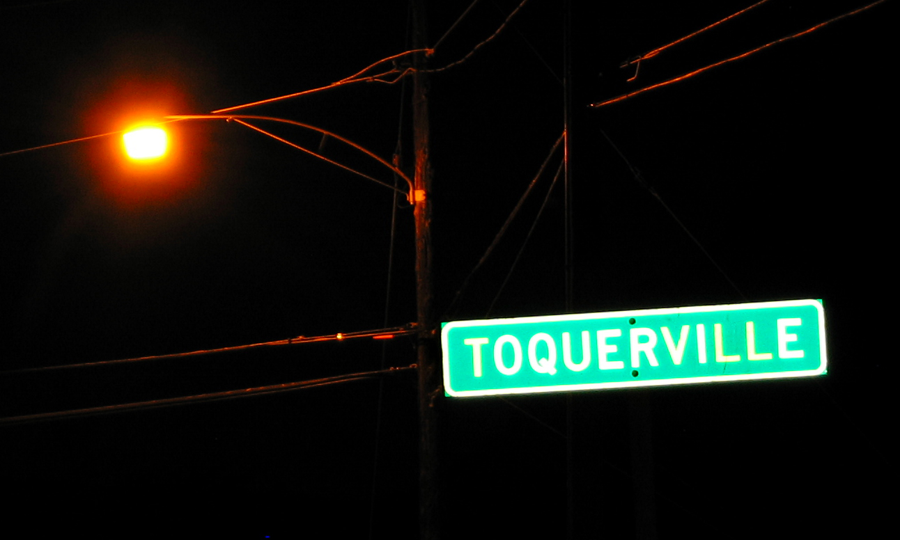 Toquerville, Utah - Welcome sign at night Photo by Ricardo630 Ricardo630 04:48, 9 August 2006 (UTC)